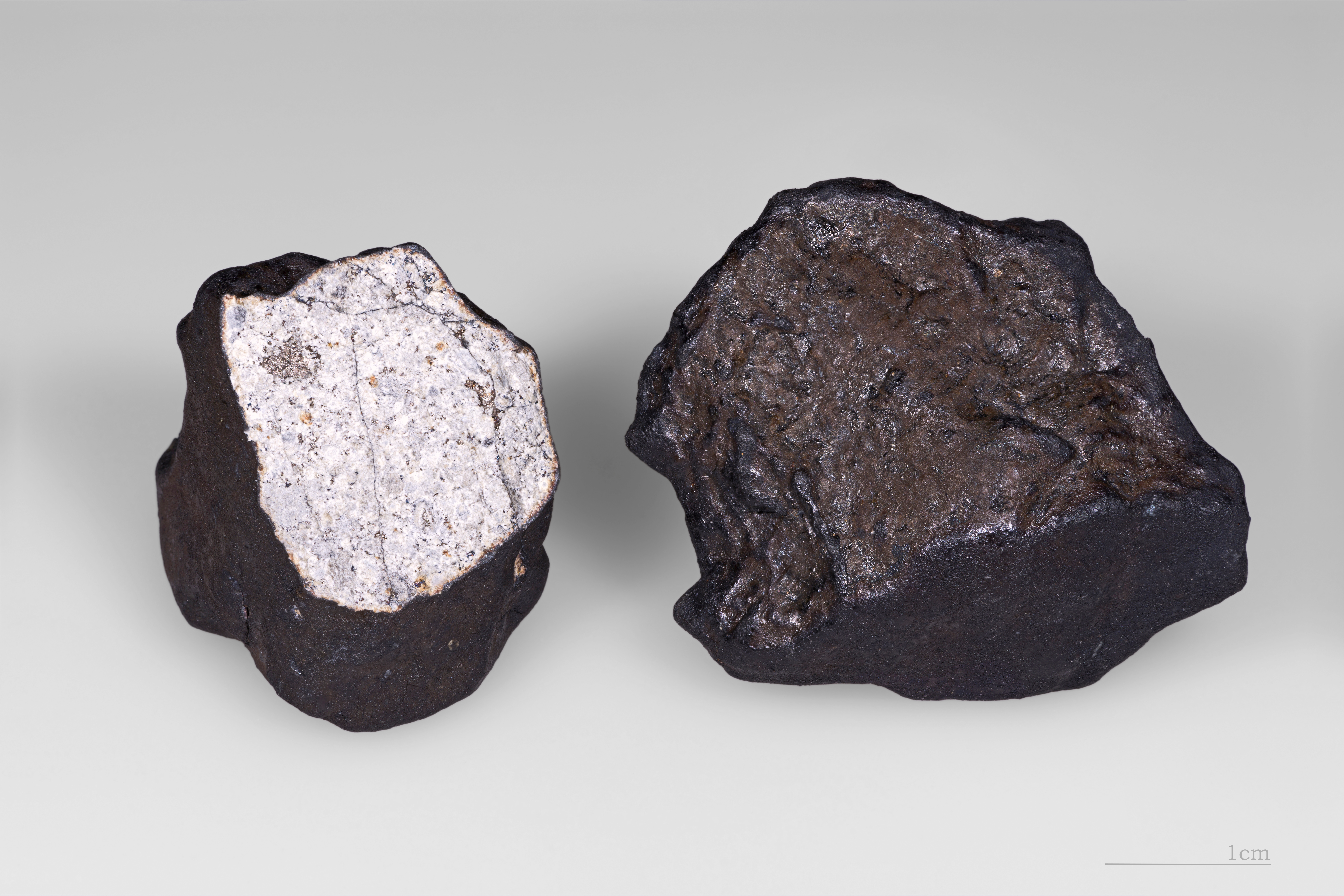 Two fragments of the Chelyabinsk (Cherbakul) meteorite. This specimens was found on a field between the villages of Deputatsky and Emanzhelinsk on February 18, 2013. The broken fragment displays thick primary fusion crust with flow lines and a heavily shocked matrix with melt veins and planar fractures. Many crystals are visible in the fractures. The second fragment has a complete fusion crust. Type: Chondrite LL5